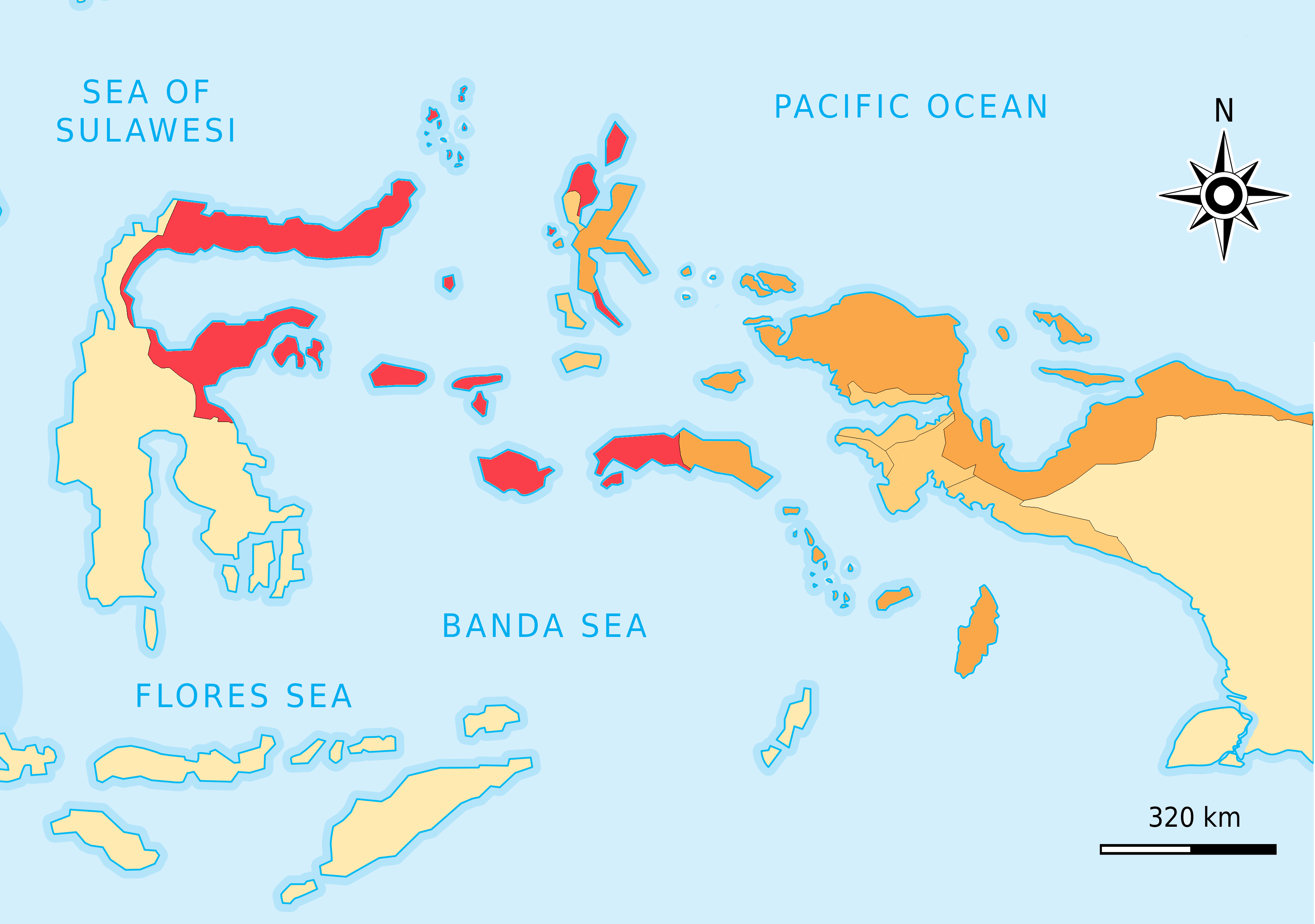 The dark orange area is core realm of Sultanate of Tidore. The light orange area is vassal states of Sultanate of Tidore. The pale yellow is outer realm or independent states from TIdore. The red area is Sultanate of Ternate (under the control of VOC). Resources used to create the map: (21 juin 2007) Majapahit, Kompas Daily, Jakarta Indonesia Latif, Chalid; Irwin Lay , ed. (1997) Atlas Sejarah Indonesia dan Dunia (Historical Atlas of Indonesia and World), PT Pembina Peraga, Jakarta (en indonesian) IPS Terpadu (Sosiologi, Geografi, Ekonomi, Sejarah), PT Grafindo Media Pratama, p. 219 ISBN : 9789797583378. - Digital Atlas of Indonesian History - Jejak Nusantara: Hikayat Moloku Kie Raha - Kepulauan Rempah-rempah (Perjalanan Sejarah Maluku Utara 1250-1950) - Pemberontakan Nuku: Persekutuan Lintas Budaya di Maluku-Papua Sekitar 1780-1810 - Ternate, The Residency and Its Sultanate (Bijdragen tot de Kennis der Residentie Ternate) - The World of Maluku: Eastern Indonesia in the Early Modern Period - The Royal Ark - Wikipedia